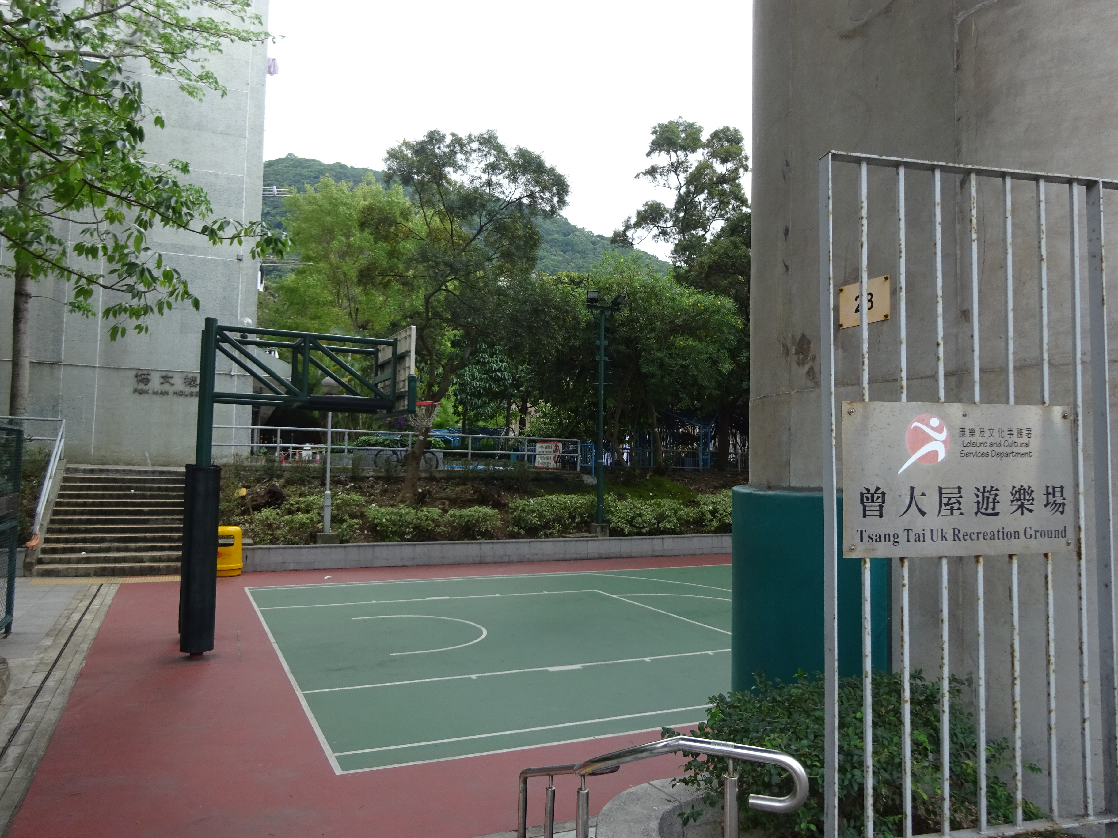 HK Shatin Shan Ha Wai at Sha Kok Street Tsang Tai Uk in May 2016